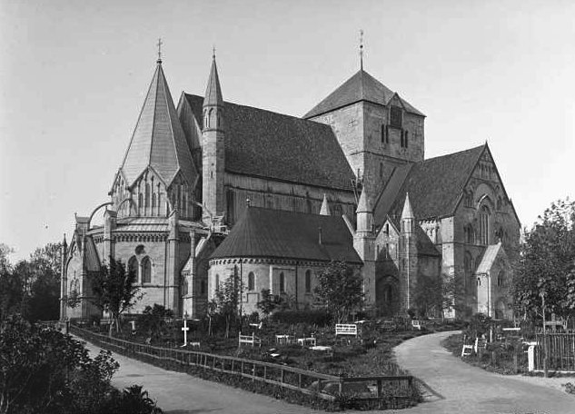 Trondheim Domkirke (Nidarosdomen), Published by Richard Andvord in 1892, Owner of work is Norsk Folkemuseum